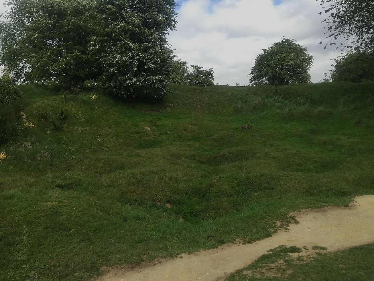 Hill 60, Ypres, Belgium: battlefield memorial park with crater of the British deep mine fired at Hill 60 on 7 June 1917